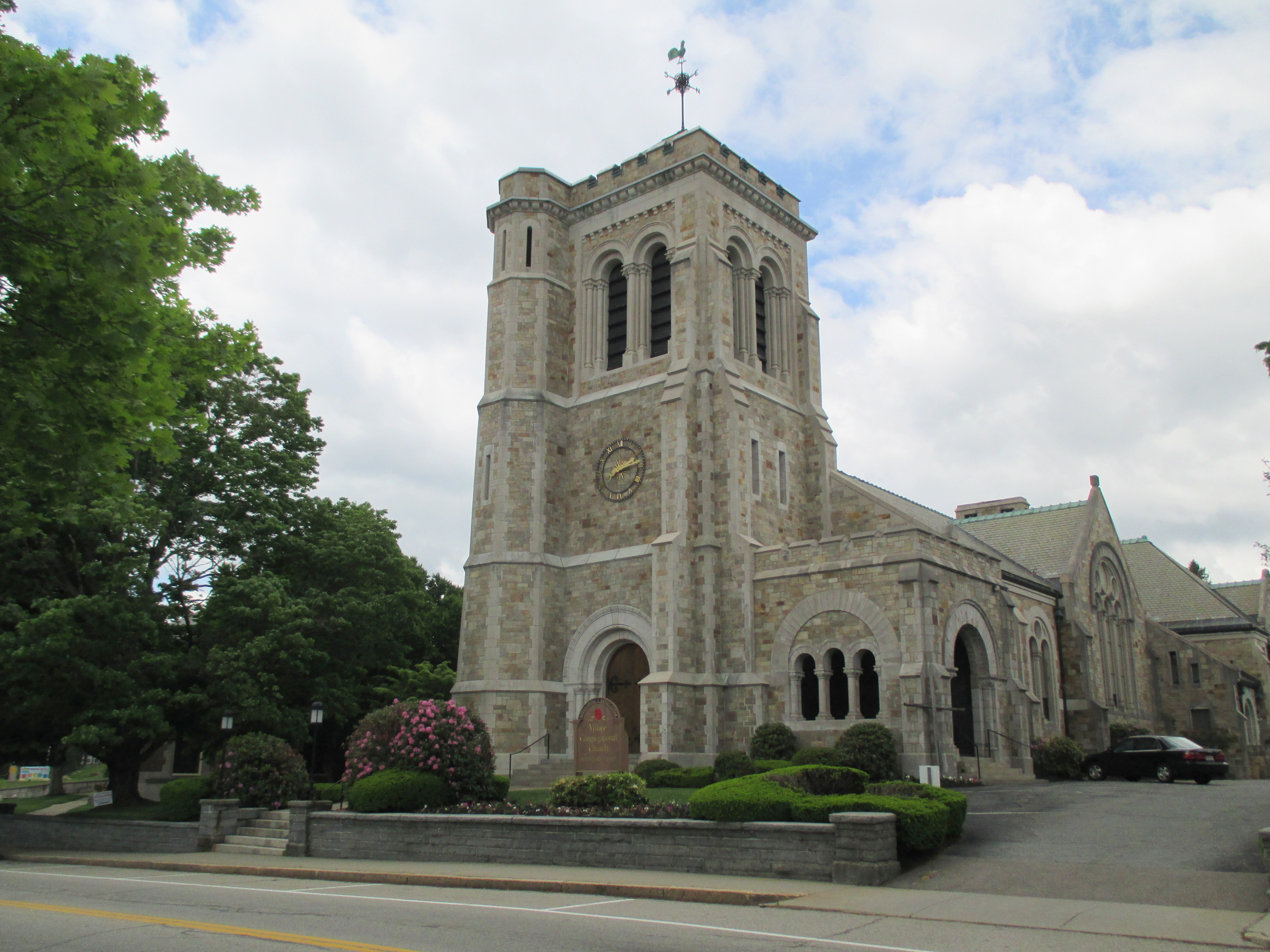 Village Congregational Church 25 Church Street Whitinsville, Massachusetts Massachusetts Cultural Resource Information System: NBD.10 Romanesque Revival Church, 1898 Architects: Shepley, Rutan and Coolidge